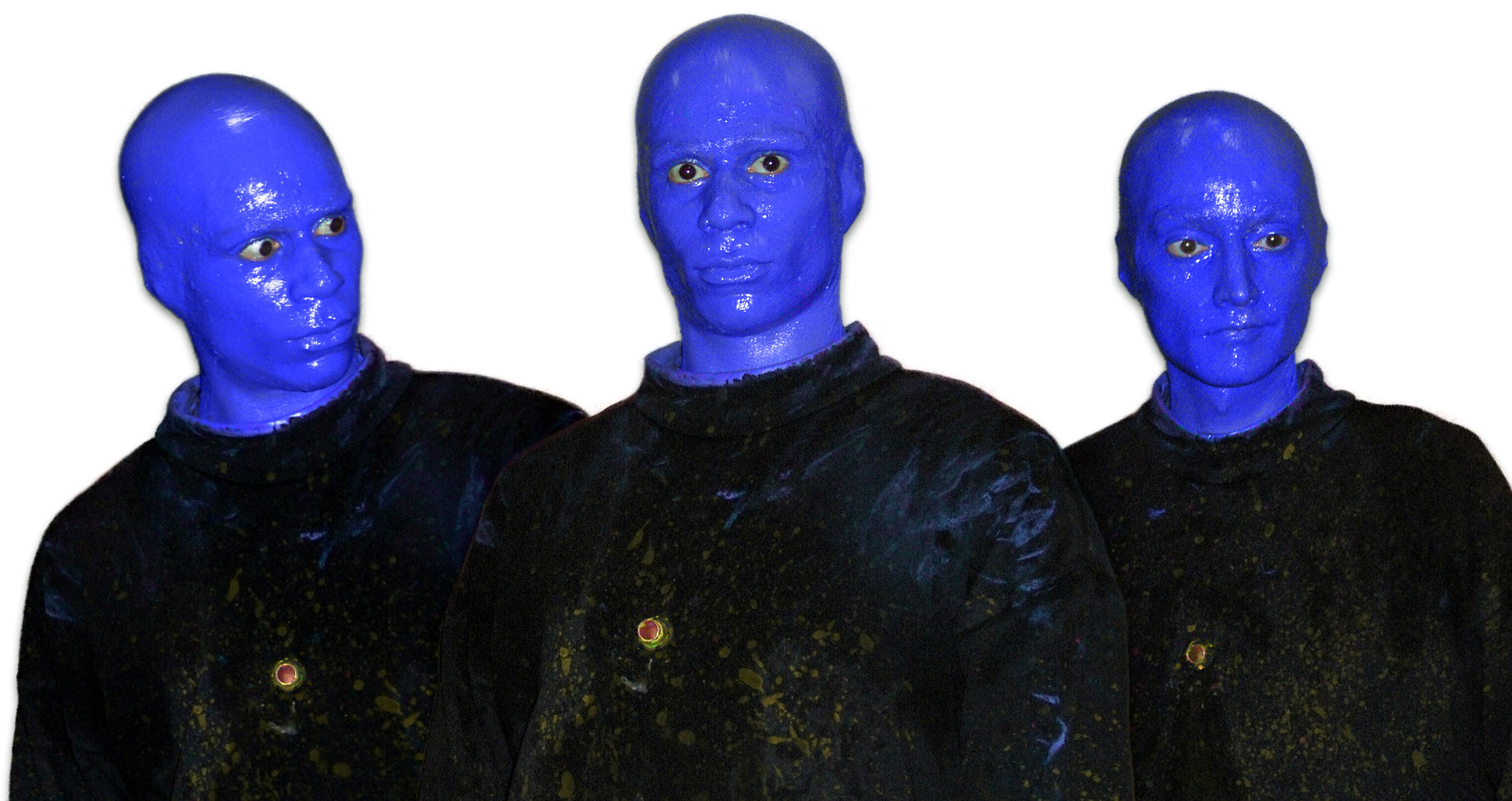 The Blue Man Group in the Foyer of the Theater am Potsdamer Platz in Berlin, Germany. This image is composed from other images (see below). The two Blue Men on the left and in the middle are the same person.